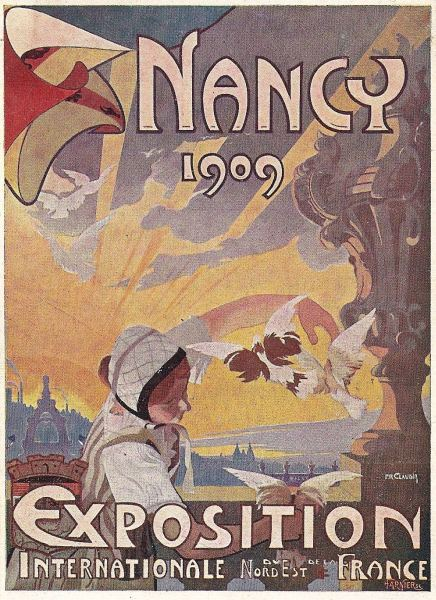 Affiche de l'exposition internationale Nancy 1909